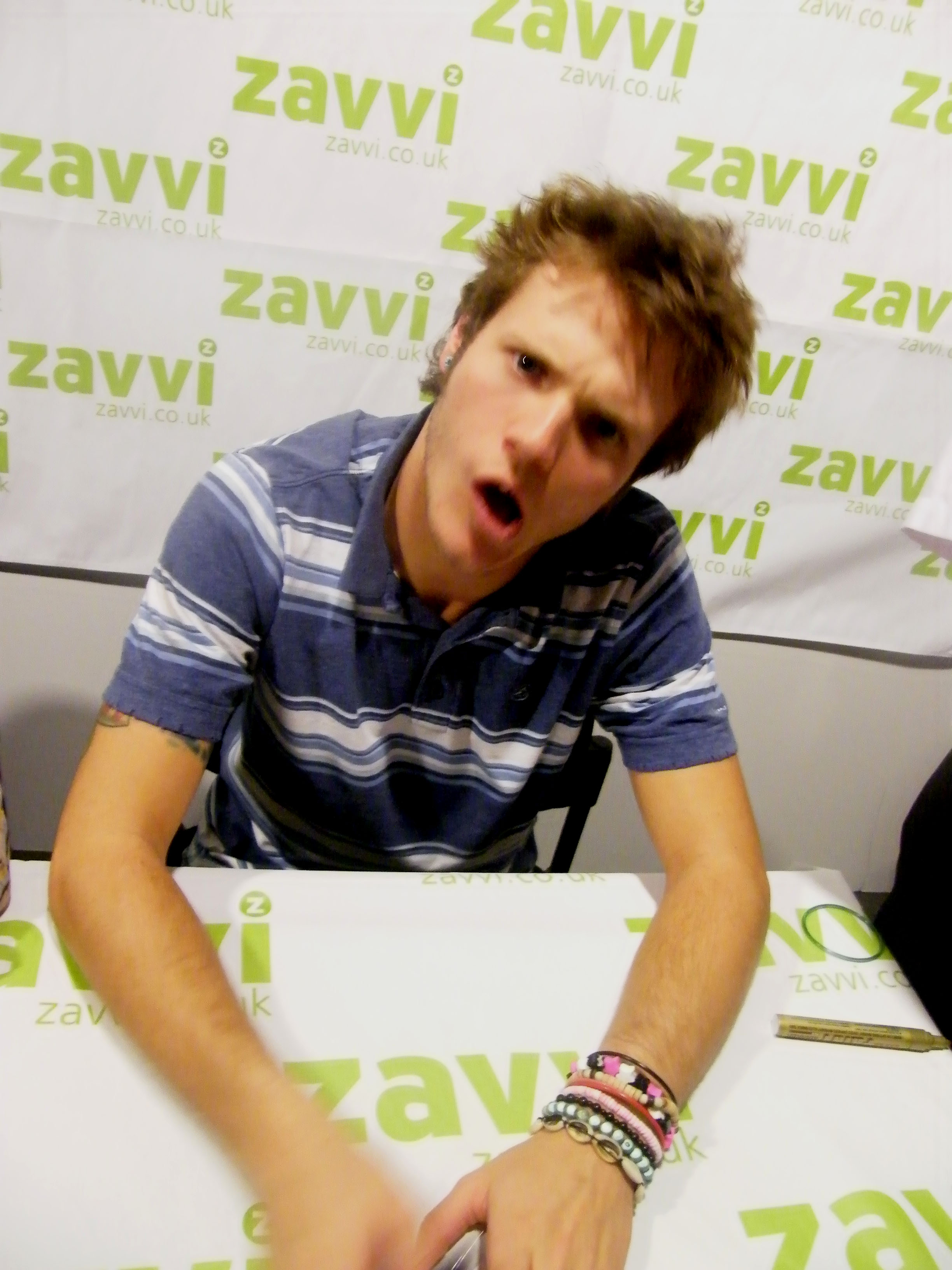 Dougie Poynter of McFly at a signing in Manchester.